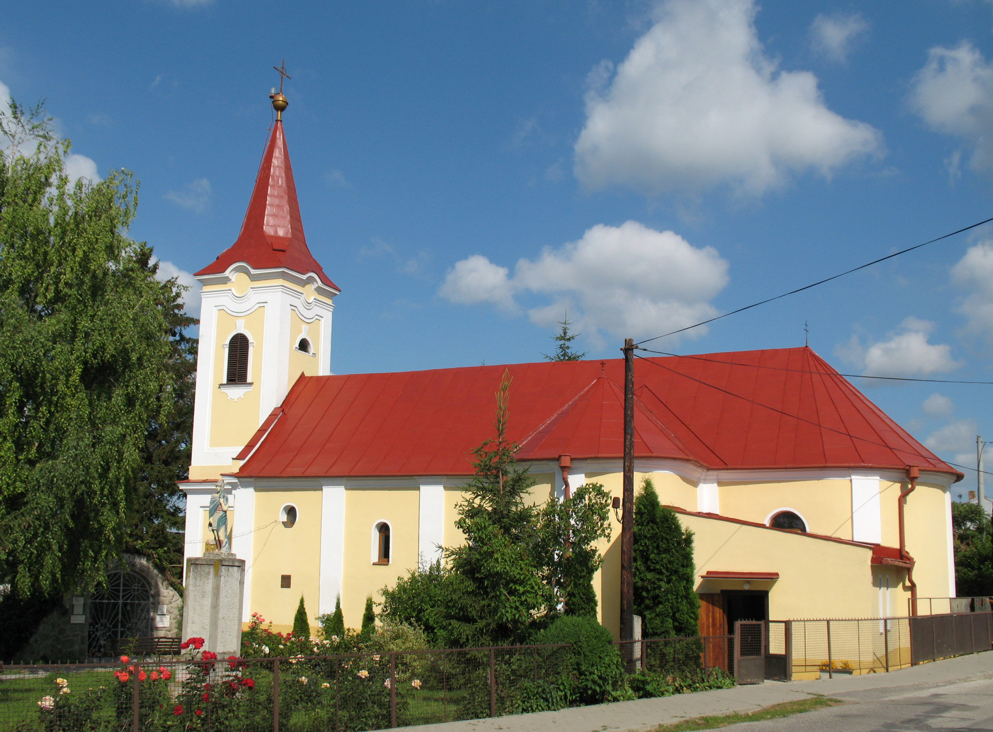 Church of Janíkovce, part of Nitra